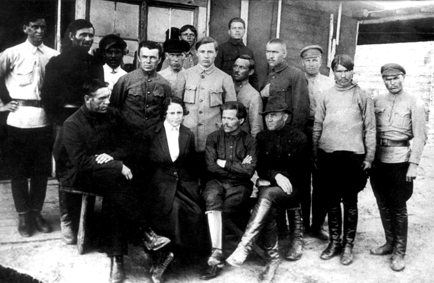 Nestor Makhno with his wife, surrounded by his fellow campaigners. 1922